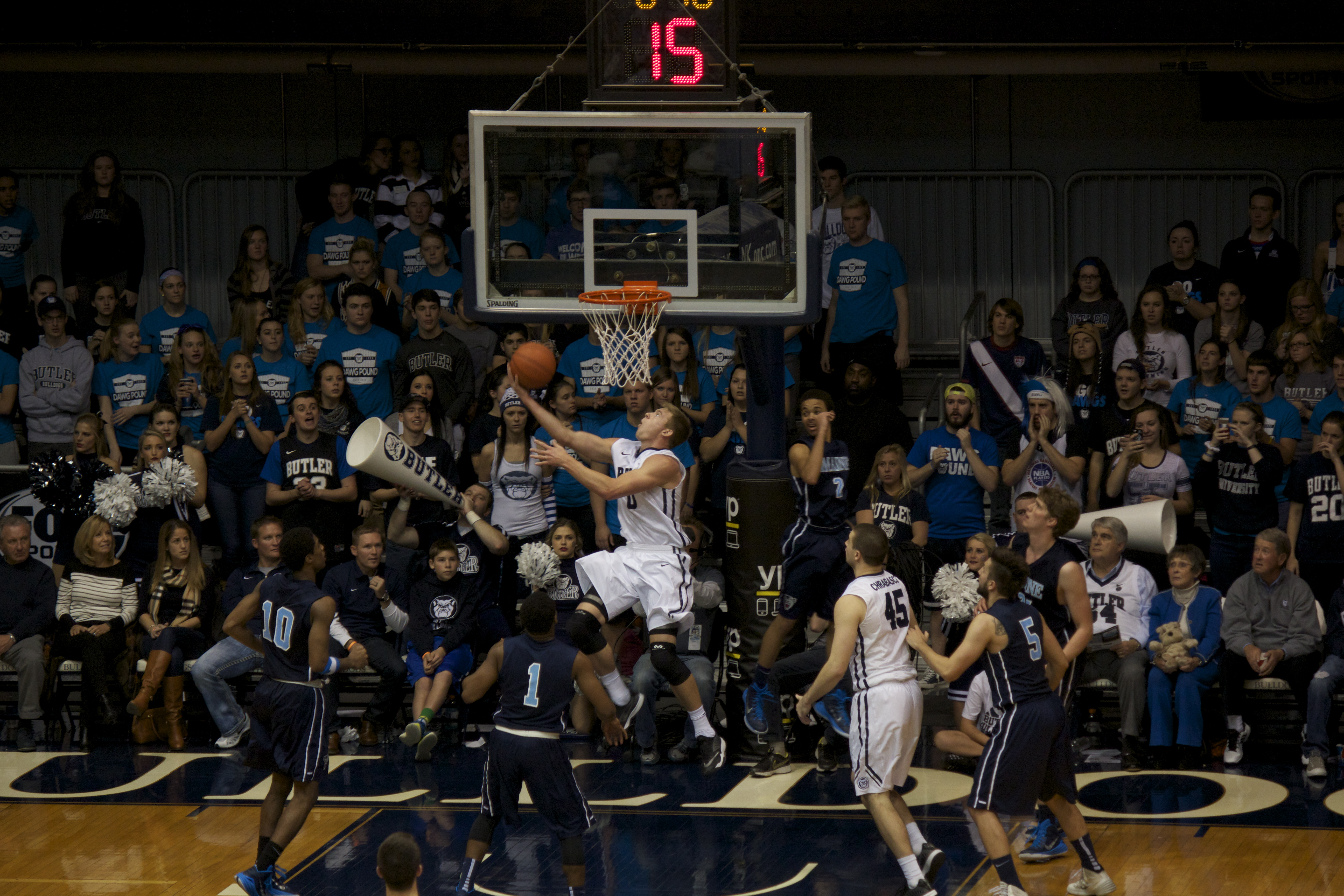 Austin Etherington reverse layup vs Maine